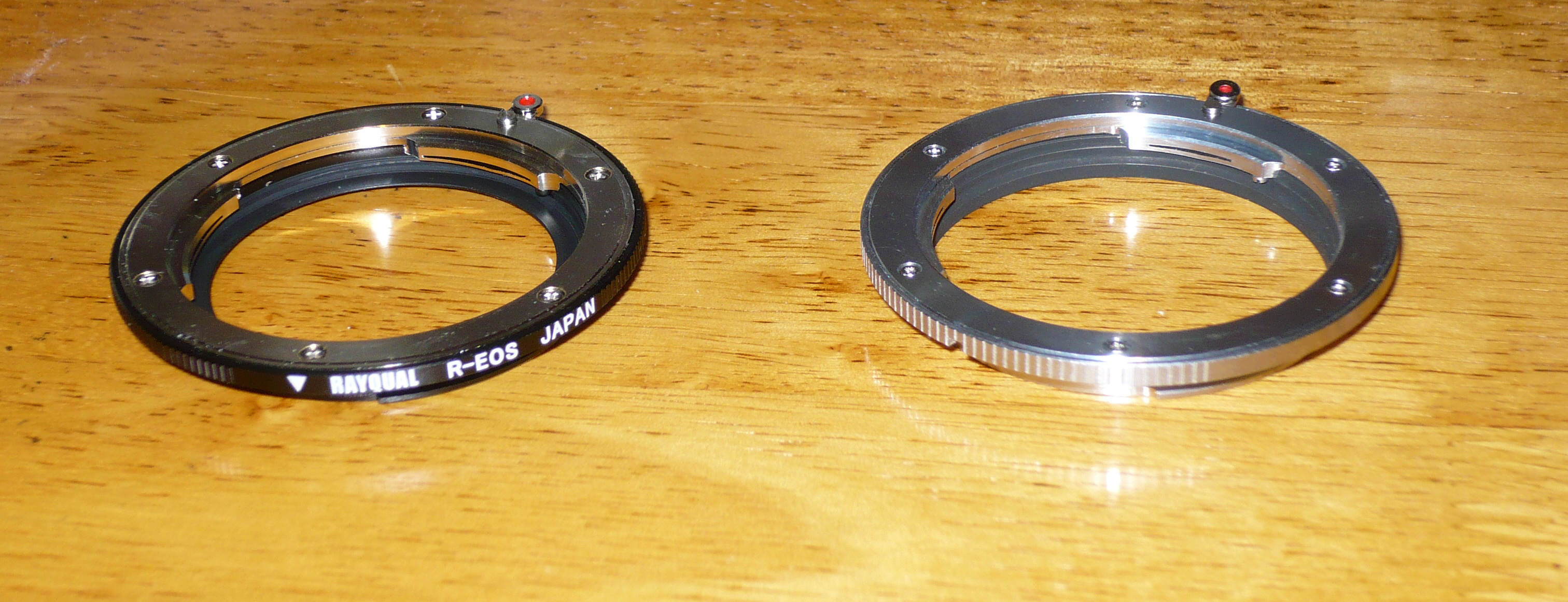 Rayqual REOS adapter and PIXCO REOS adapter